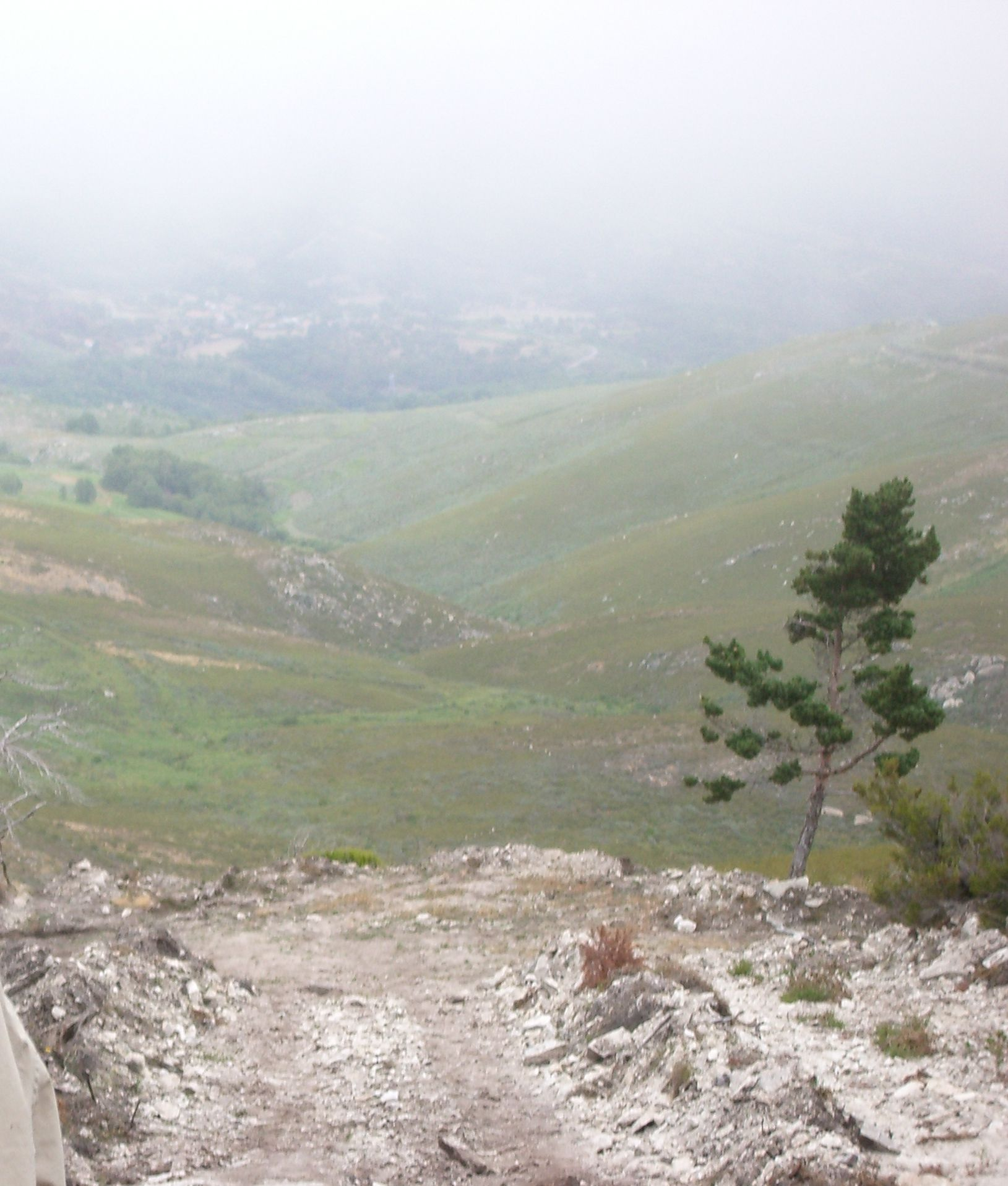 View of the middle course of river San Lázaro from the Os Forcados summit (1399 m in the Central Massif of Ourense) next to the areas of Piago and Mallada de Barbeirón with the village A Encomenda at the background.